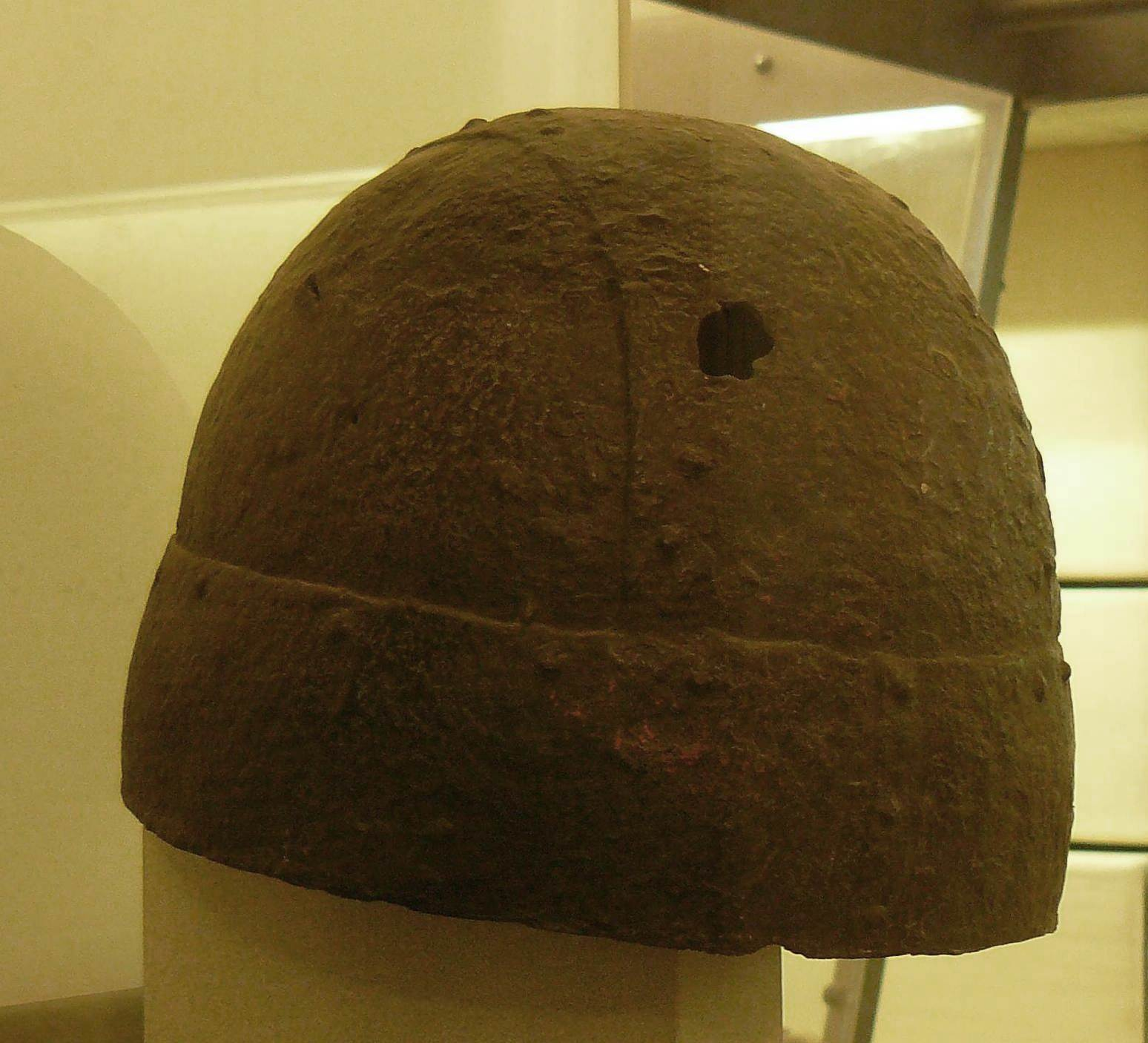 Spherical helmet from Narona, Croatia, about 5th to 6th century (Replica)